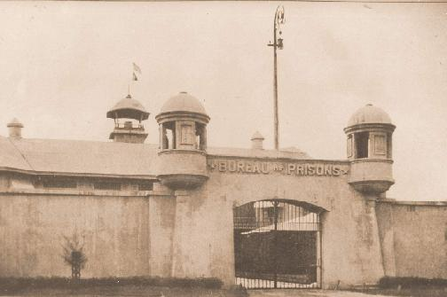 Picture of the Old Bilibid Prison in the Phiilippines